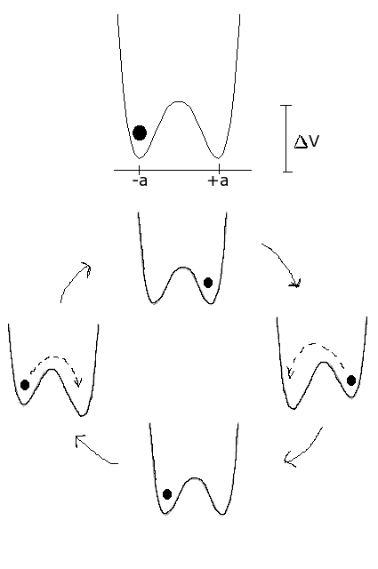 Double well potensial